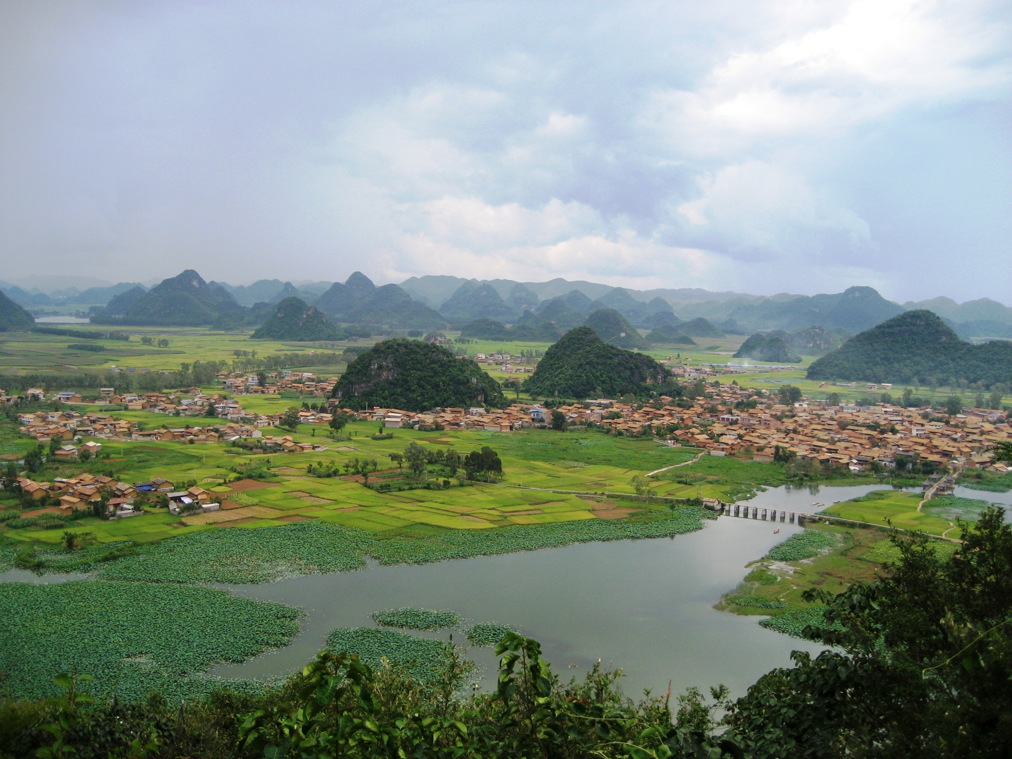 The villages are located in Qiubei County, which is in Yunnan Province in the south-west of China. The landscape is dominated by Karst topography, lakes and caves. More than 500,000 tourists, mostly Chinese are visiting this beautiful places per year. The project by YEDI and YEPD was started to reduce the pollution of the lake caused by a lack of sanitation . Photo by P. Feiereisen in August 2009.